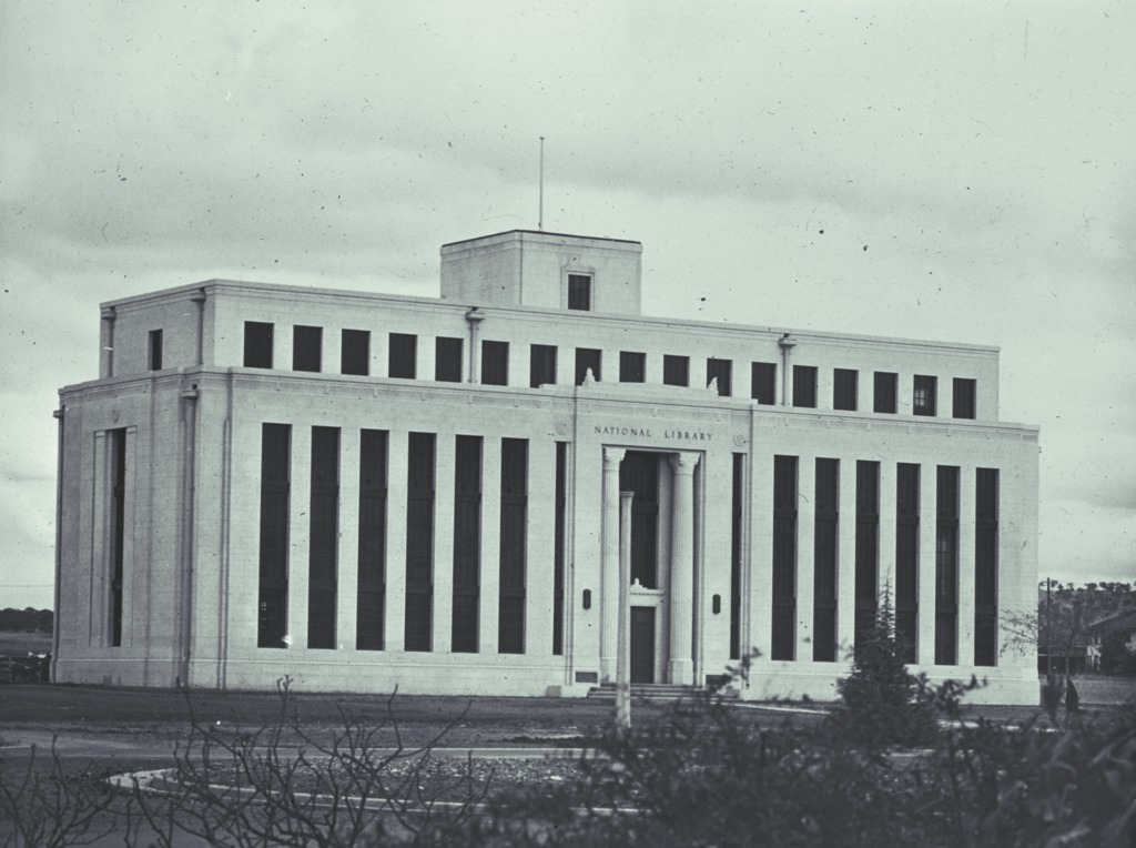 Photograph of the National Library building on Kings Avenue, Canberra taken between 1901 and 1948 by William James Mildenhall